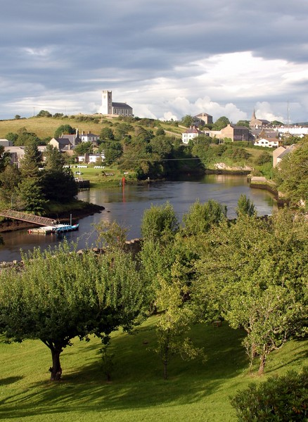 The River Erne in Ballyshannon, Co. Donegal, Ireland